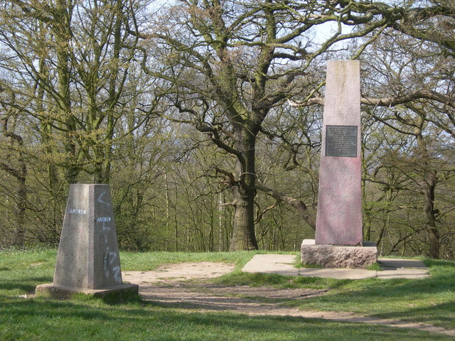 Trig Point and Obelisk, Pole Hill, Chingford The obelisk was originally intended to mark the Greenwich Meridian as it was understood in 1824 but the line has been altered and is now 19 feet away. To see what the plaque says, follow this link.